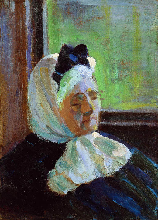 An old woman. By Mykola Burachek. author died in 1942, does not appear to have served in Great Patriotic War